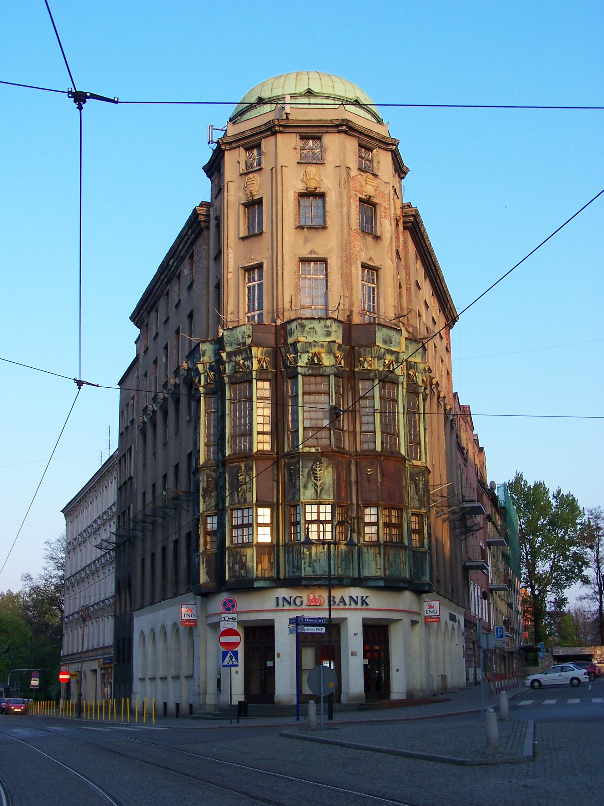 Building of the “Admiral” in Zabrze.